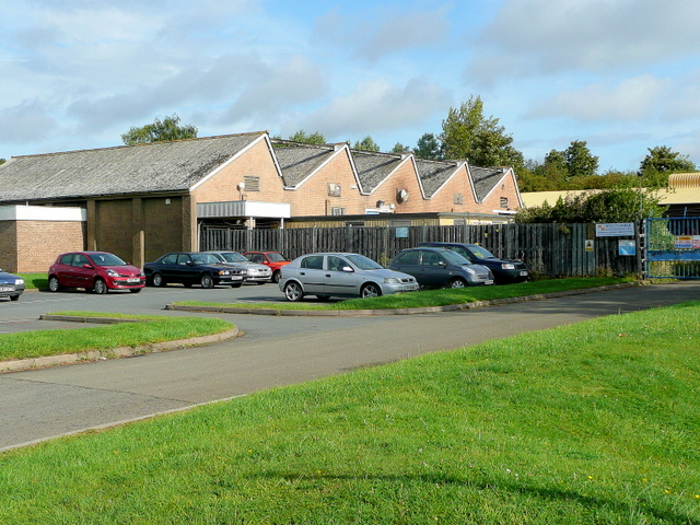 Factory buildings at Rotherwas Older-style buildings north of Netherwood Road.